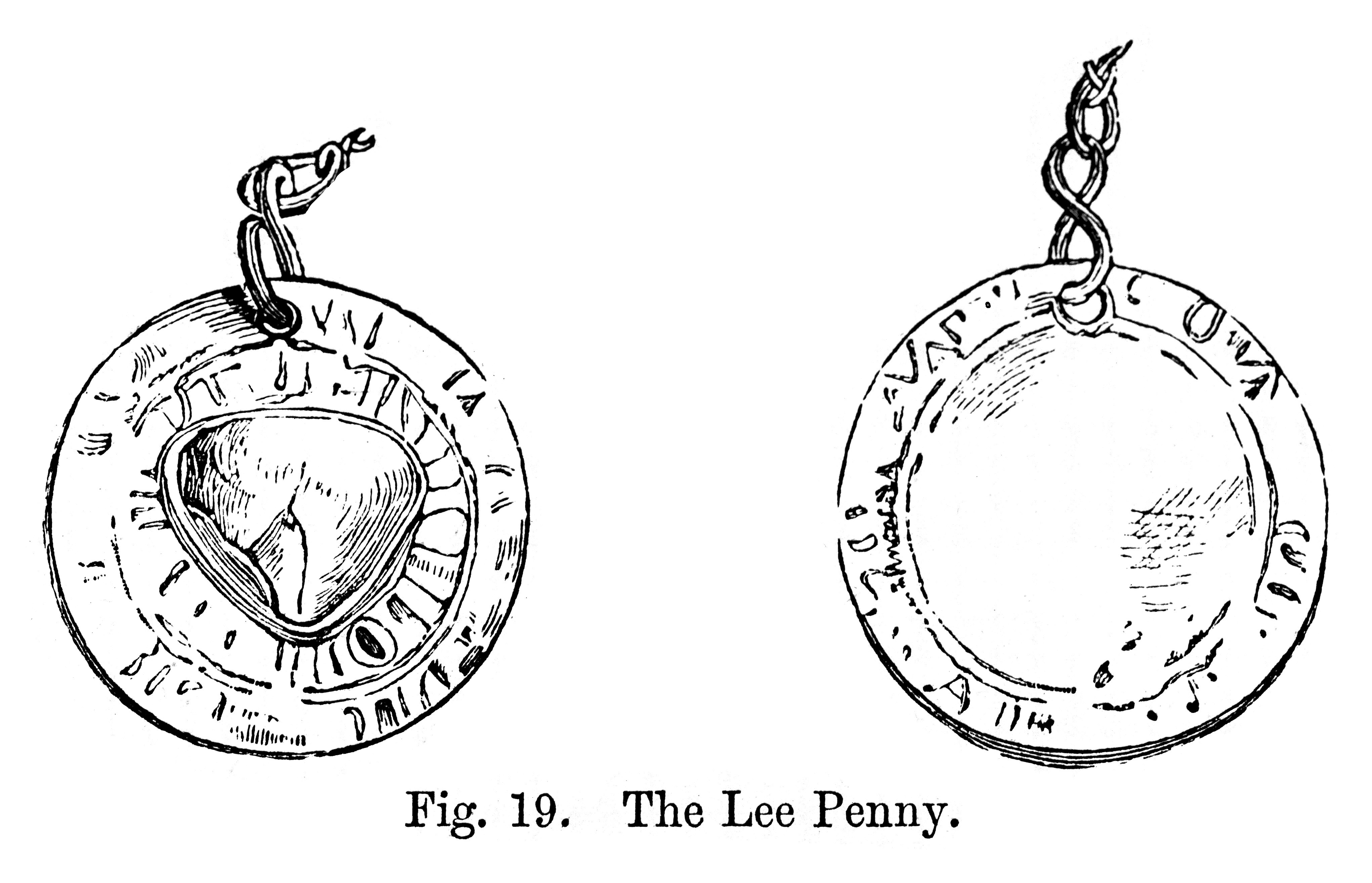 The Lee Penny, used for healing. Wellcome Images Keywords: amulets